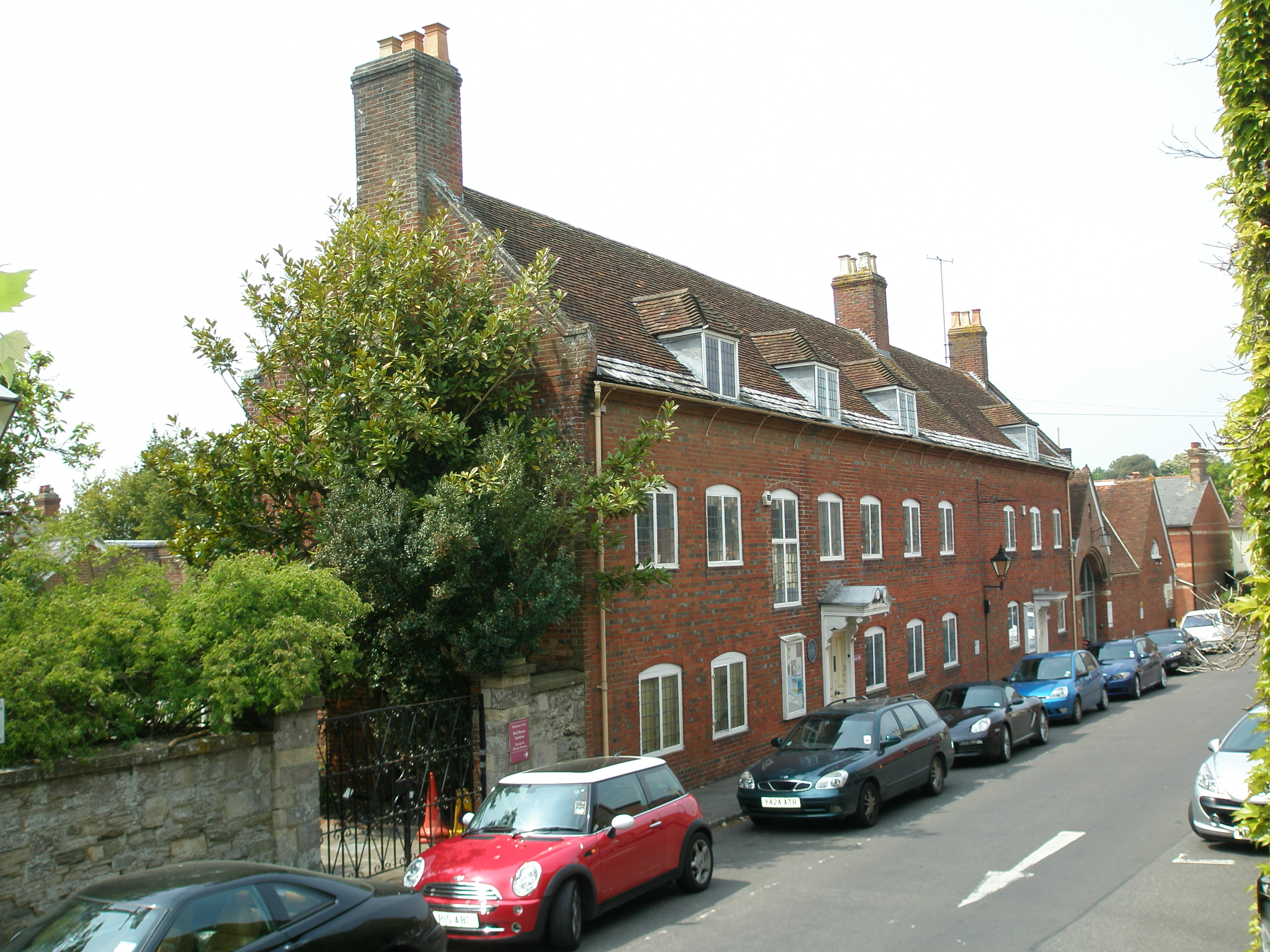 The Red House Museum at Christchurch, Dorset; once the town workhouse.